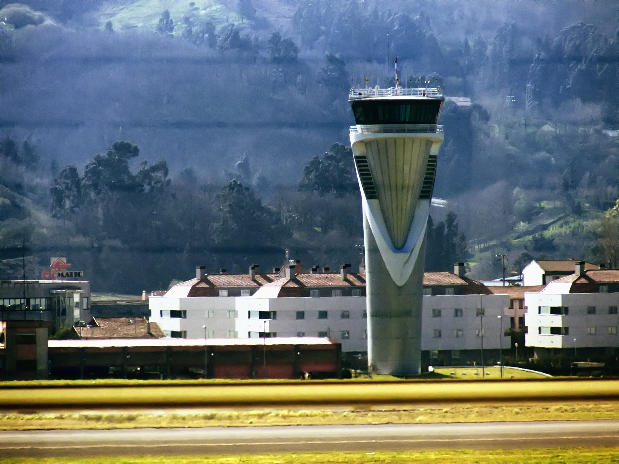 The following is the author's description of the photograph quoted directly from the photograph's Flickr page."Taken from the departures corridor, from the interior of the terminal. "